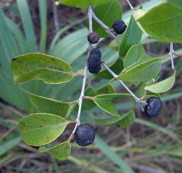 Found in Everglades National Park